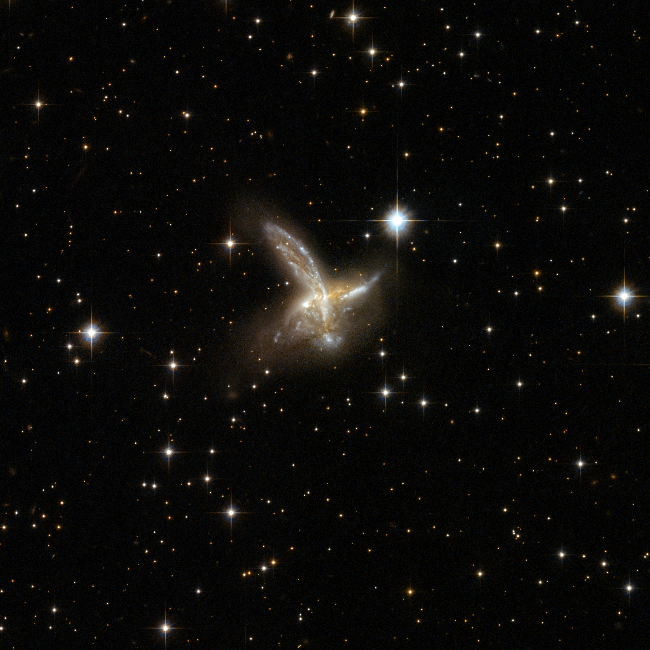 ESO 593-8 is an impressive pair of interacting galaxies with a feather-like galaxy crossing a companion galaxy. The two components will probably merge to form a single galaxy in the future. The pair is adorned with a number of bright blue star clusters. ESO 593-8 is located in the constellation of Sagittarius, the Archer, some 650 million light-years away from Earth. This image is part of a large collection of 59 images of merging galaxies taken by the Hubble Space Telescope and released on the occasion of its 18th anniversary on 24th April 2008. About the objectObject nameESO 593-8, ESO 593-IG008Object descriptionInteracting GalaxiesPosition (J2000)19 14 31.11 -21 19 06.3ConstellationSagittariusDistance650 million light-years (200 million parsecs)About the dataData descriptionThe Hubble image was created using HST data from proposal 10592: A. Evans (University of Virginia, Charlottesville/NRAO/Stony Brook University)InstrumentACS/WFCExposure date(s)March 19, 2002Exposure time33 minutesFiltersF435W (B) and F814W (I)